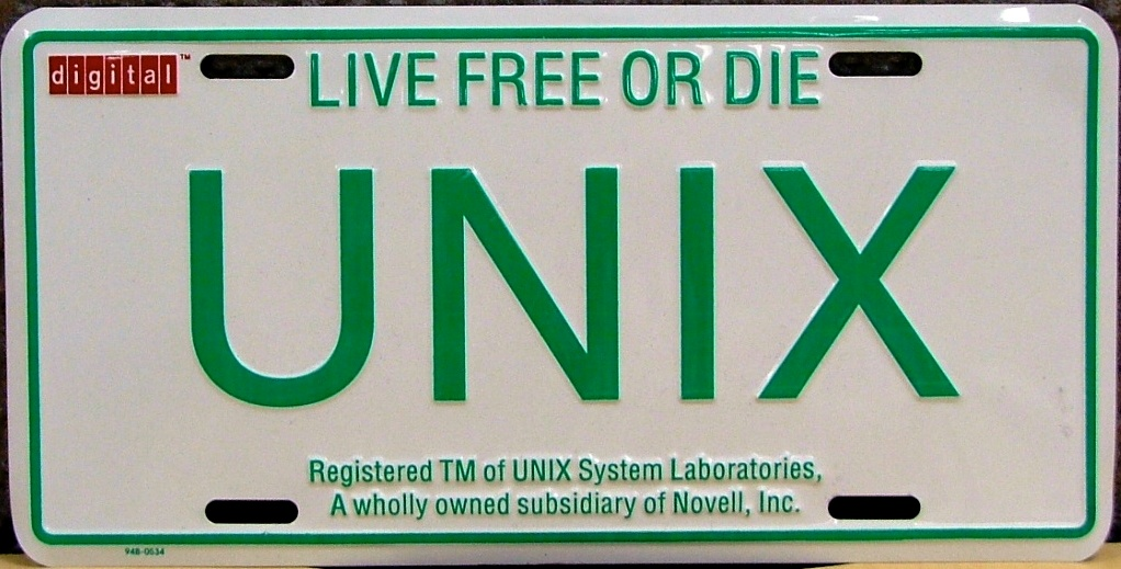 Promotional item put out by the Digital Equipment Corporation to promote the UNIX operating system. It is made to look like a car licence plate from the State of New Hampshire, USA.